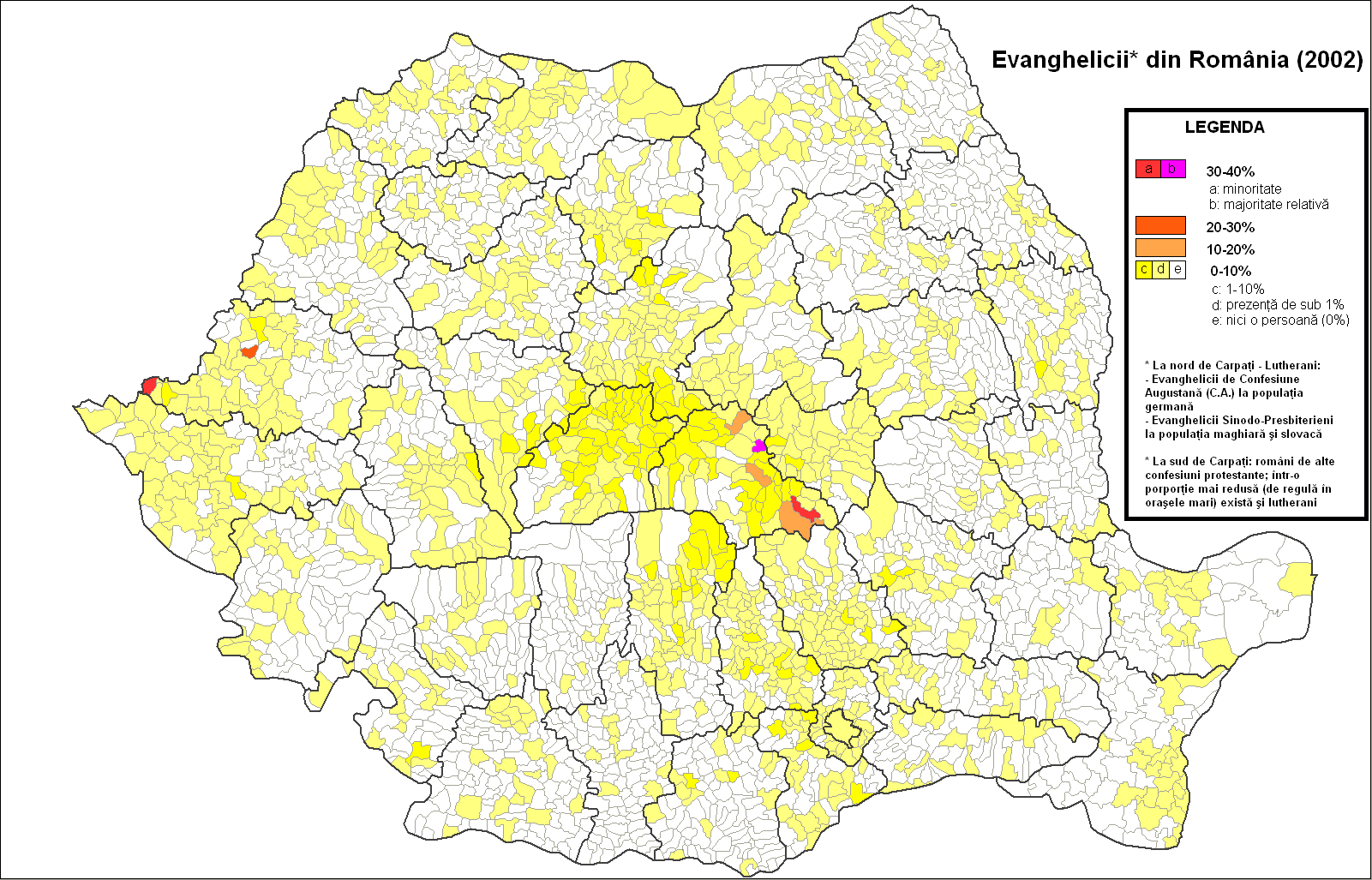 The distribution of the Lutherans (on the north of the Carpathians) and other Evangelical churches (on the south of the Carpathians) in Romania (census 2002)